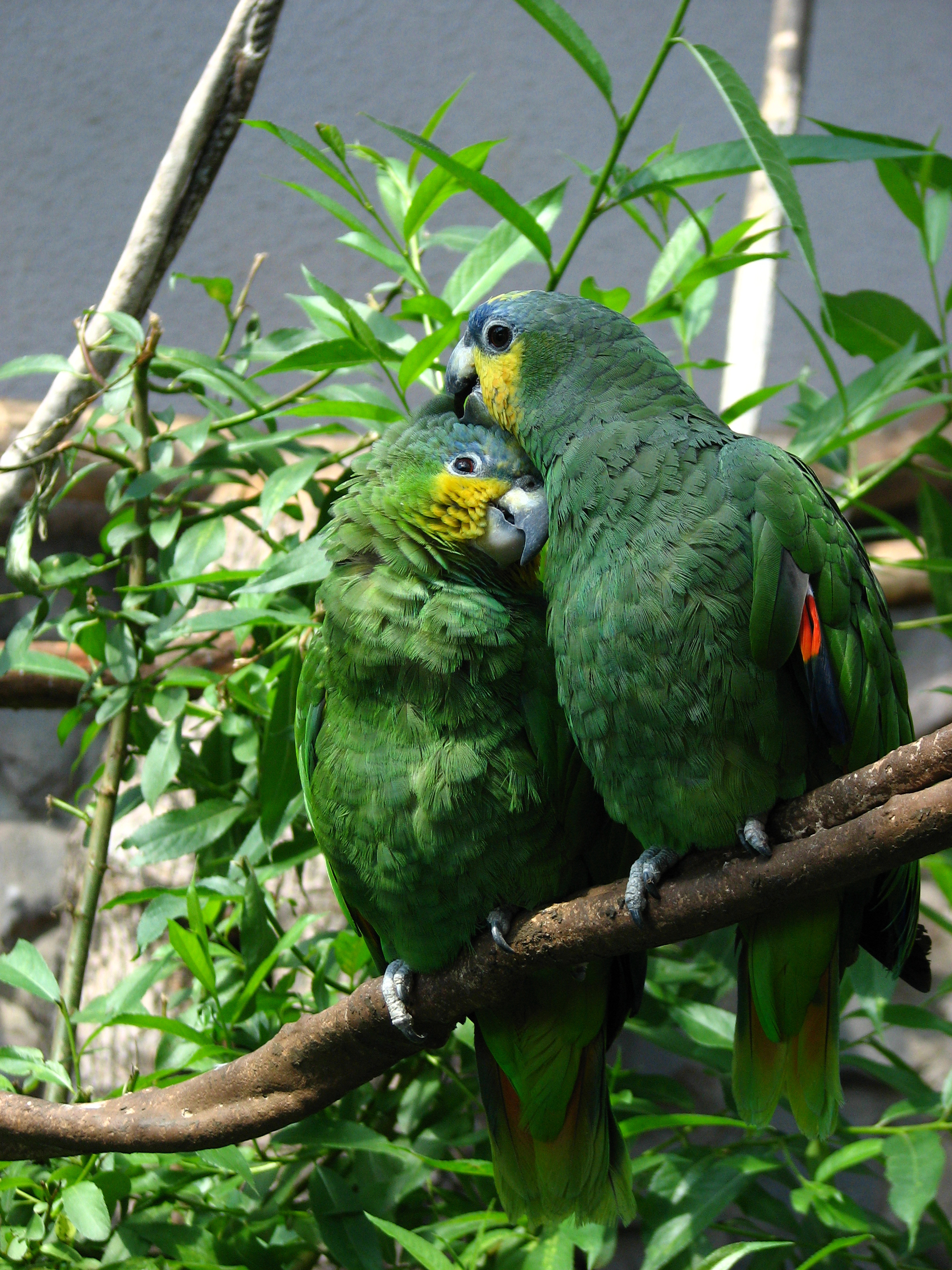 Two Orange-winged Amazons at Moscow Zoo, Russia.